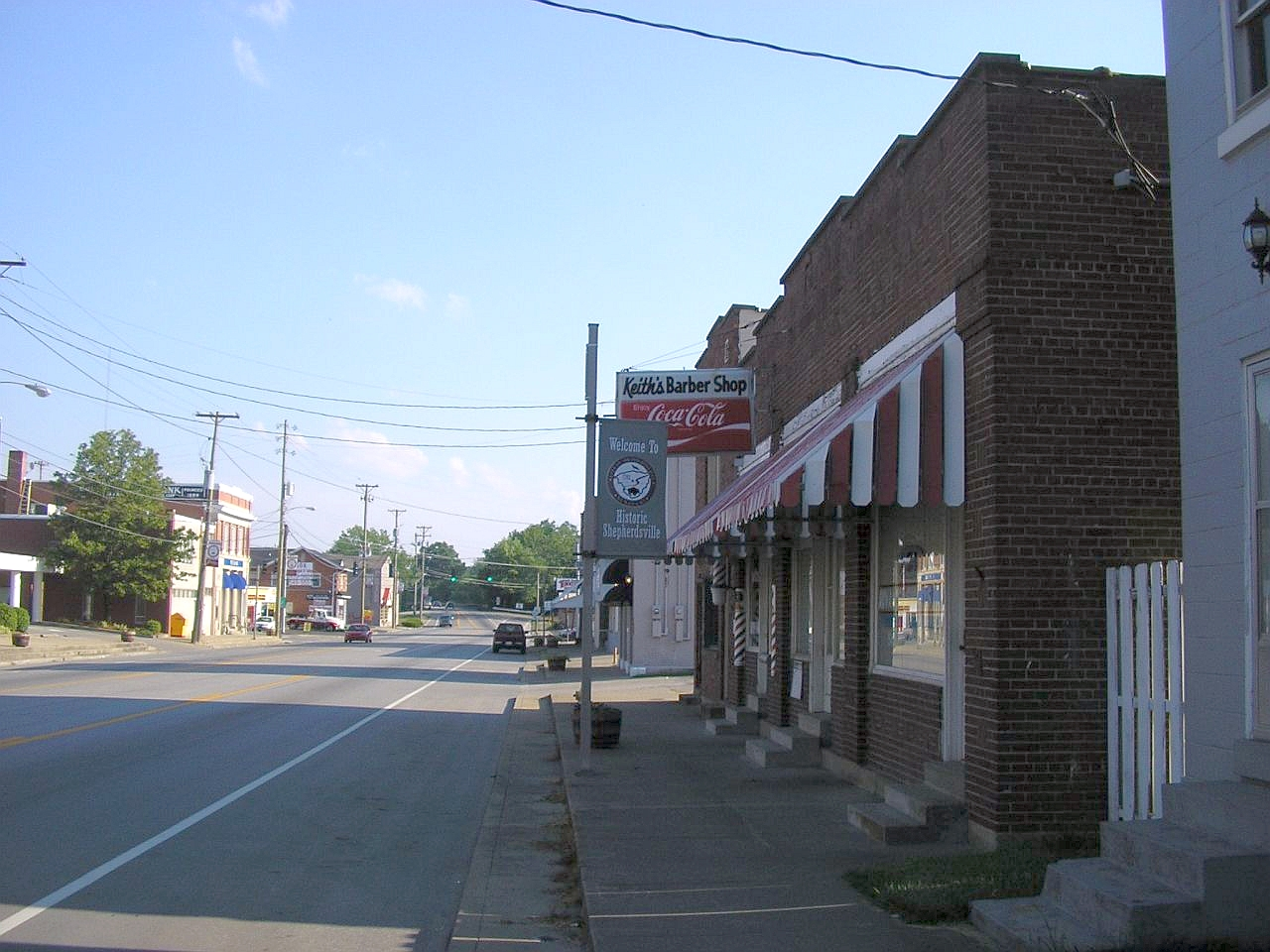 Downtown Sheperdsville, KY